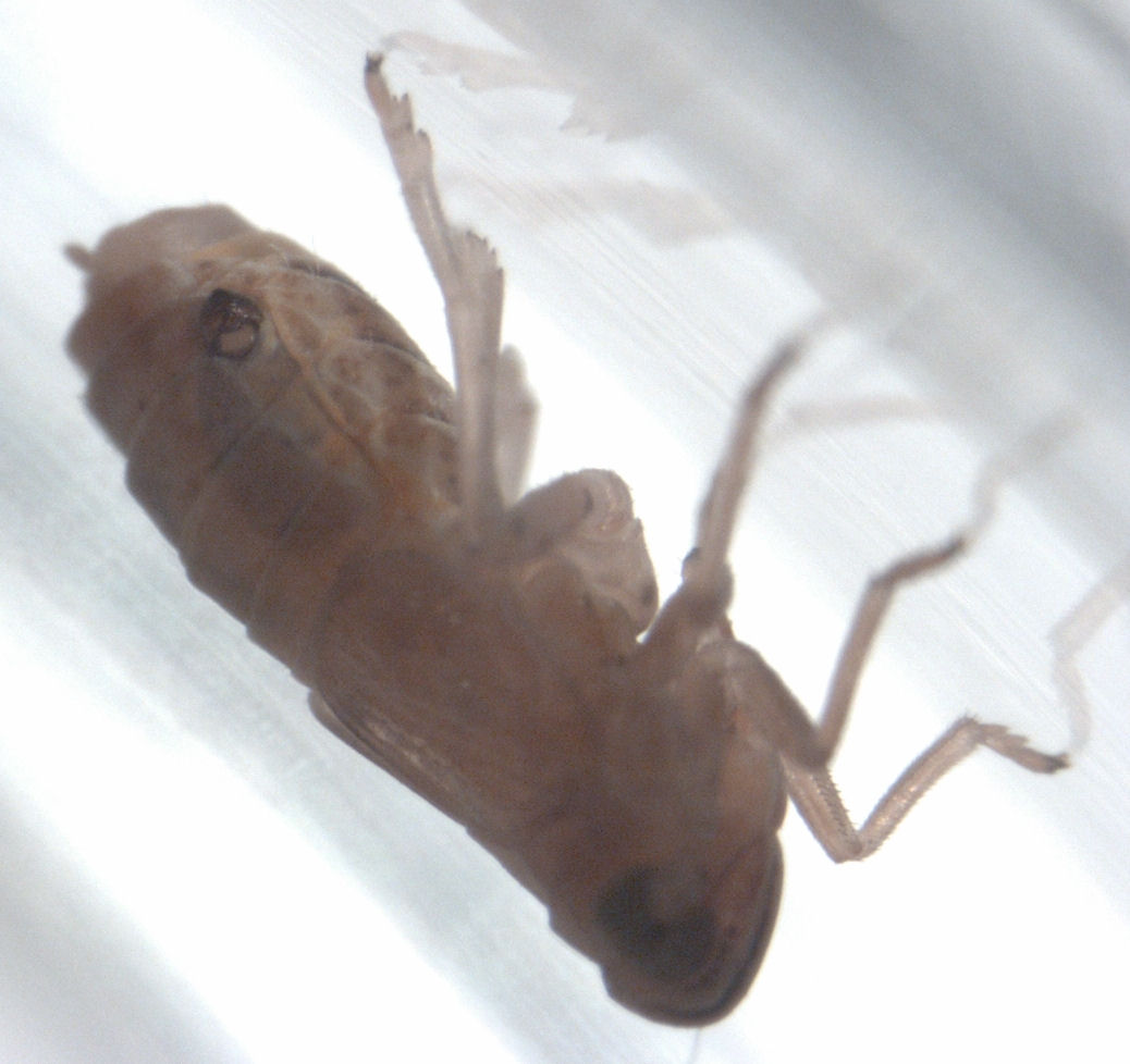 indet. delphacid stylopised by Elenchus maoricus (protruding female)